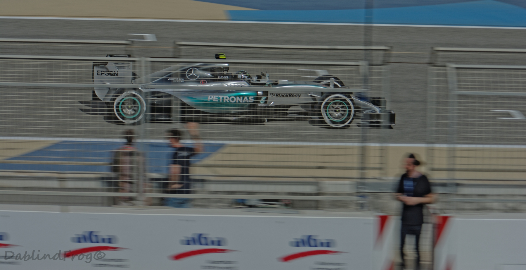 Nico Rosberg at the 2015 Bahrain Grand Prix